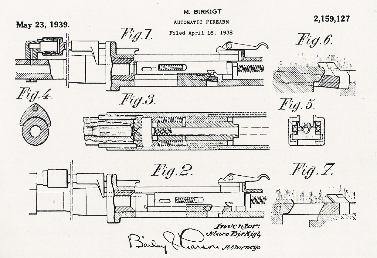 Hispano-Suiza Aircraft Gun, US Patent Drawing 1939